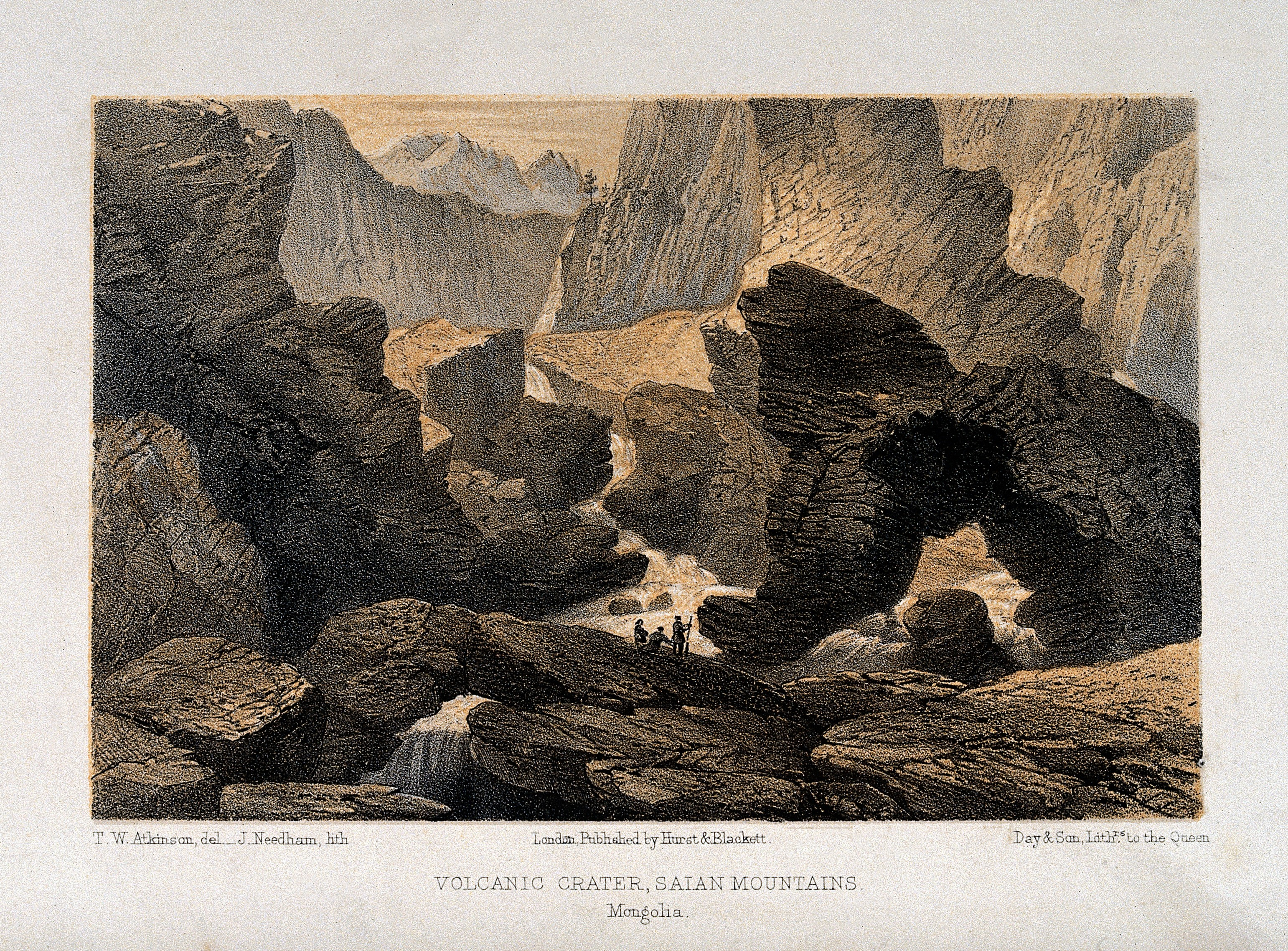 Saian Mountains, Mongolia: the crater of a volcano with irregular rock formations. Lithograph by J. Needham, 1858, after T.W. Atkinson. Iconographic Collections Keywords: Thomas Witlam Atkinson; Johnathan Needham